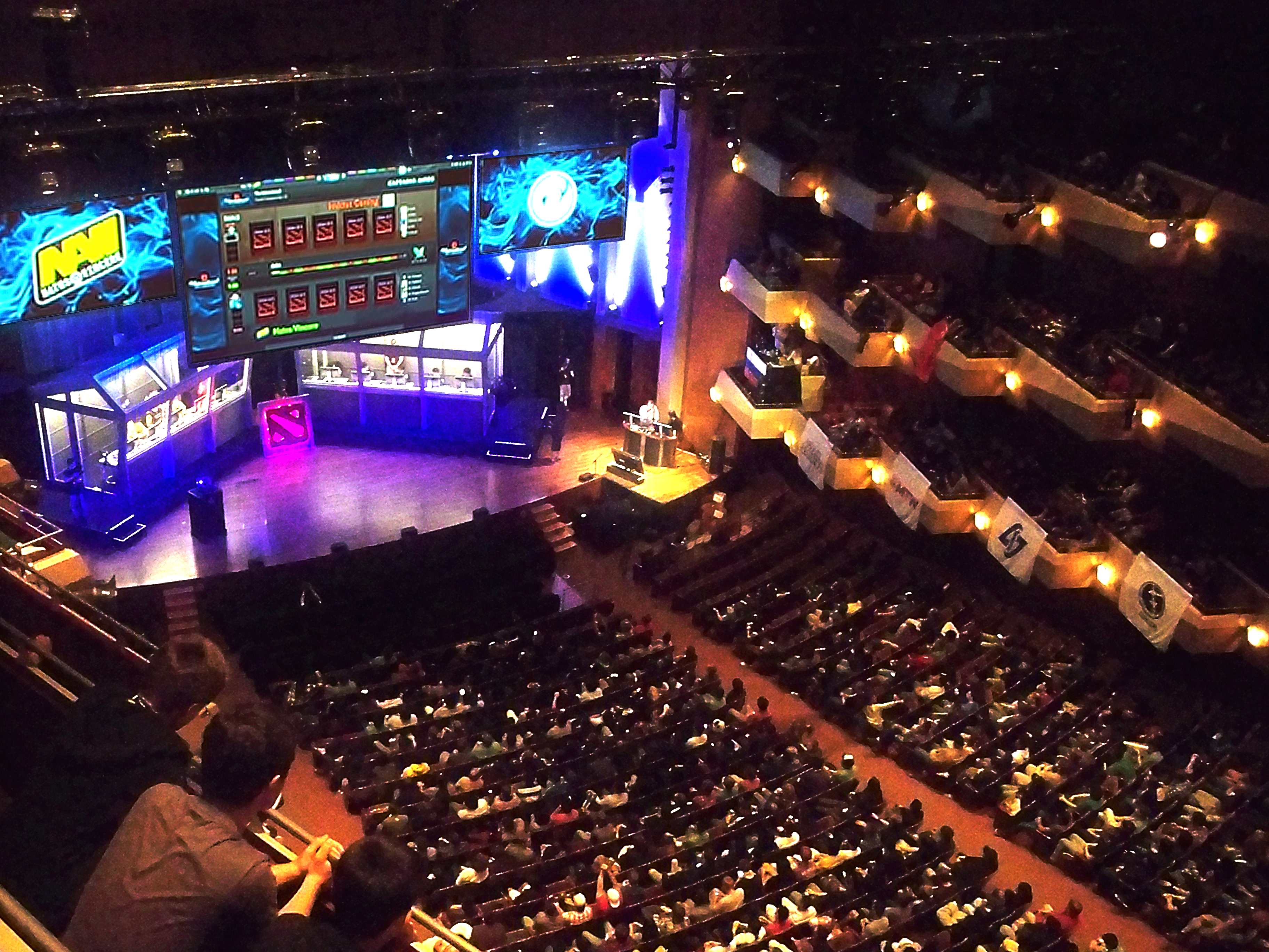 A crowd watches the grand finals of The International 2012 at Benaroya Hall in Seattle, Washington.